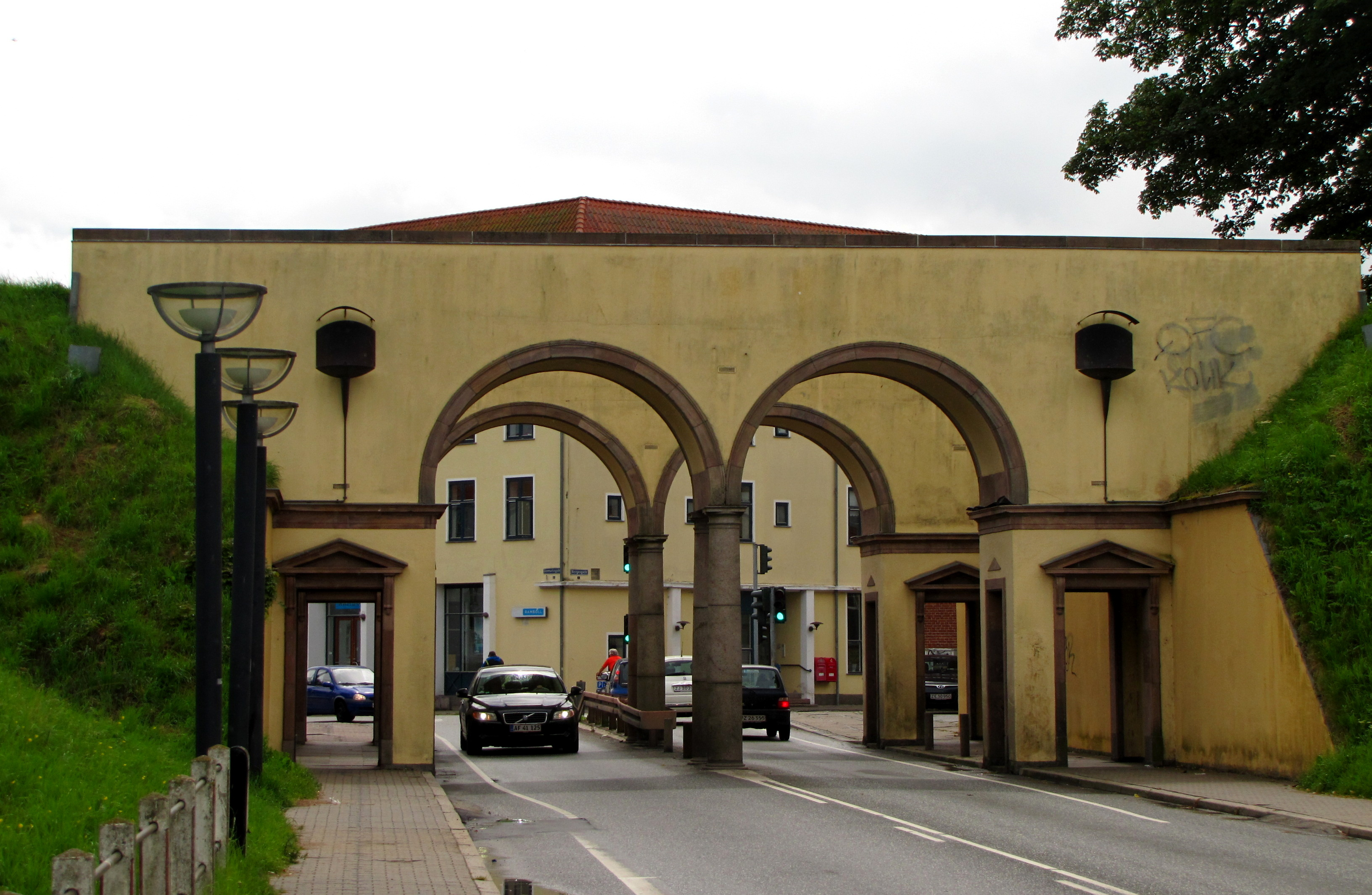 Fredericia, Denmark - gate